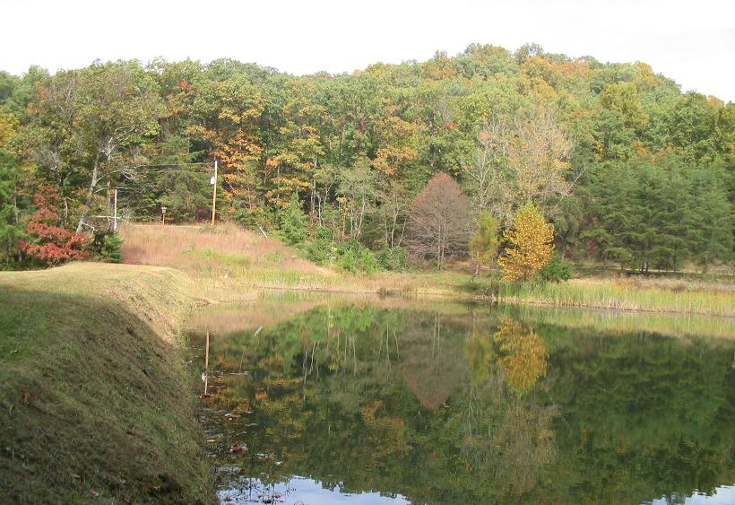 Jefferson Memorial forest near Louisville kentucky